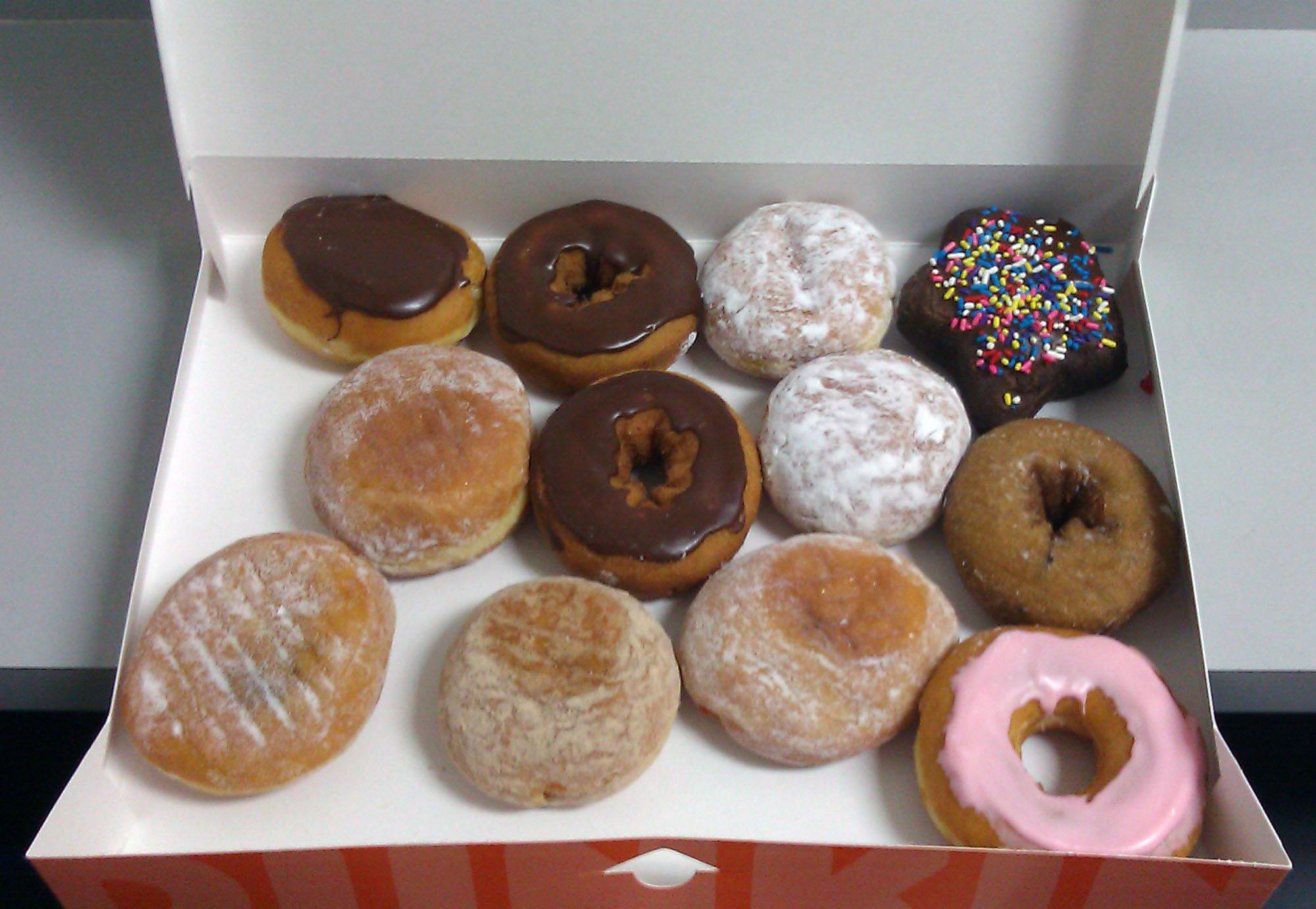 Dunkin Donuts Dozen Donuts Box